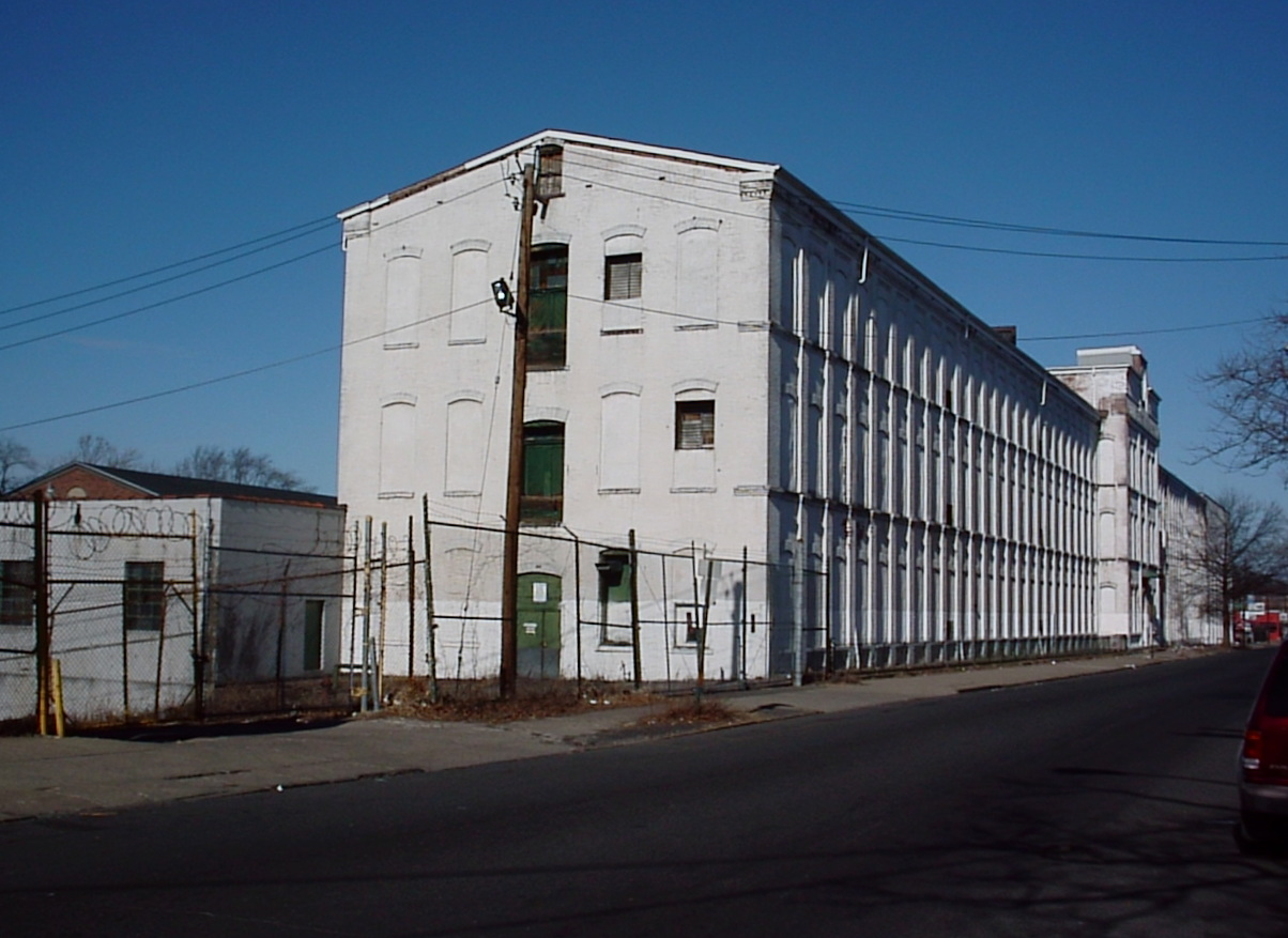 The riverside silk mill in the riverside section of Paterson.